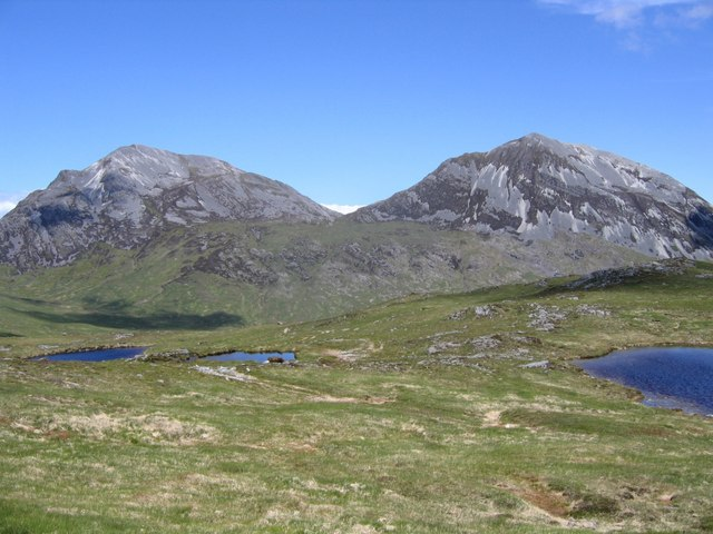 Lochans on Cnuic Charrach The rough upland area of Cnuic Charrach has several lochans that make a nice spot to view the three Paps of Jura from, though in this view only two are seen, Beinn an Oir (left), which is the highest hill on Jura, and Beinn Shiantaidh (right).